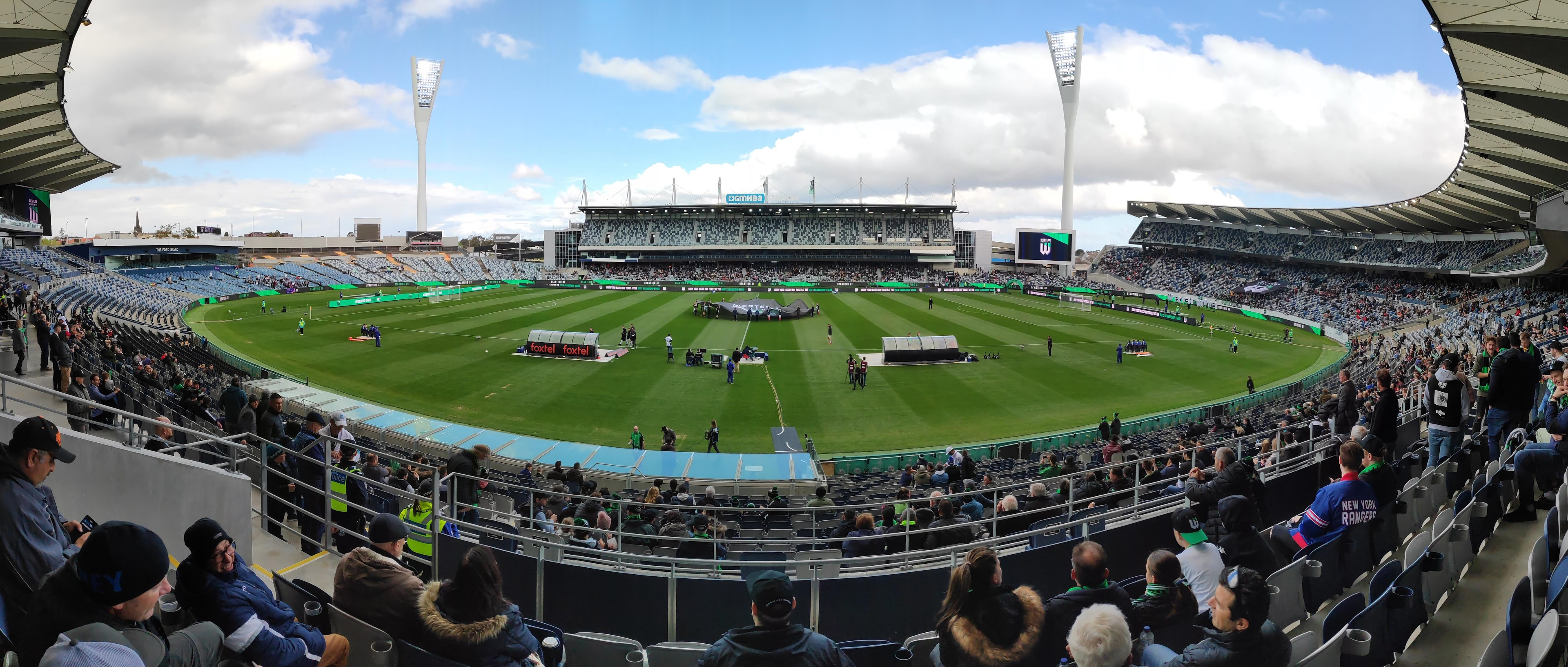 Kardinia Park before Western United's first home game, against Perth Glory, 19 October 2019